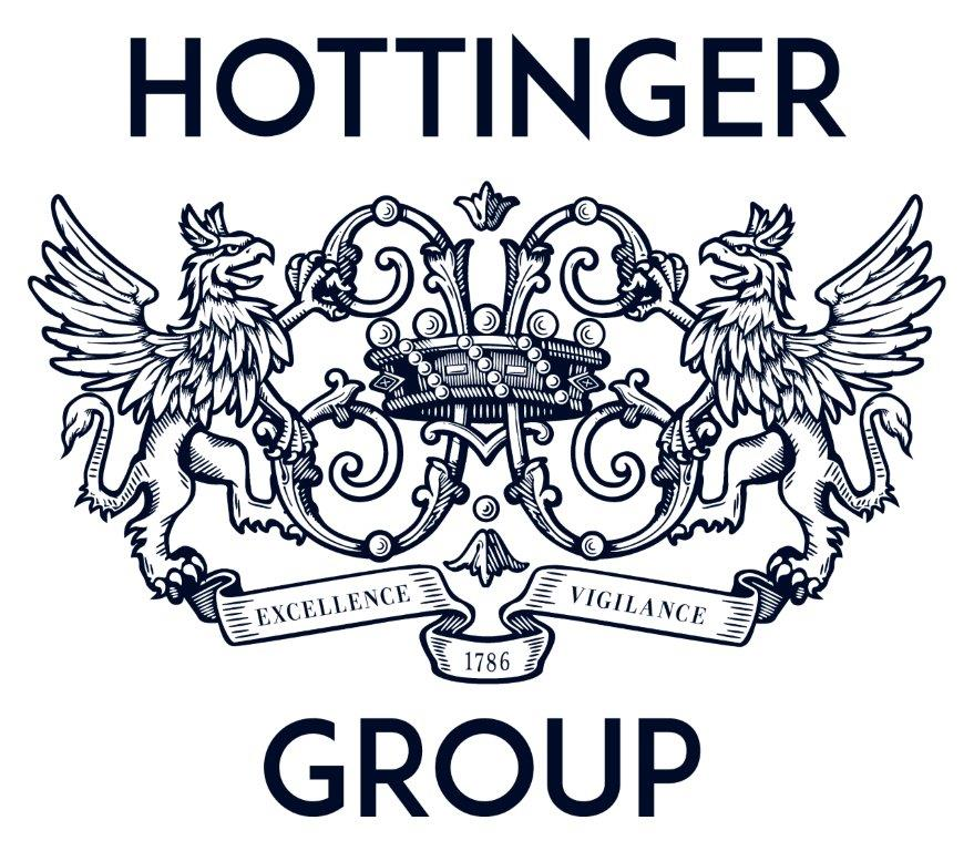 Hottinger Group Logo